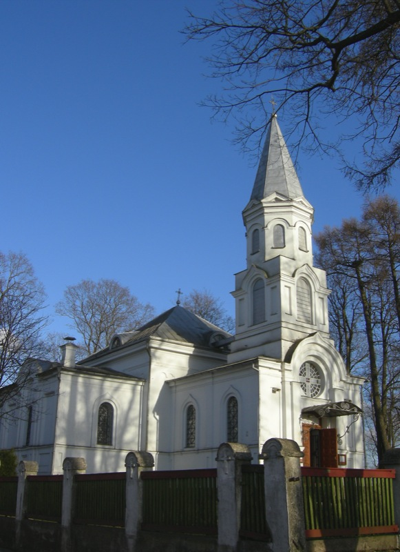 Church in Telsiai